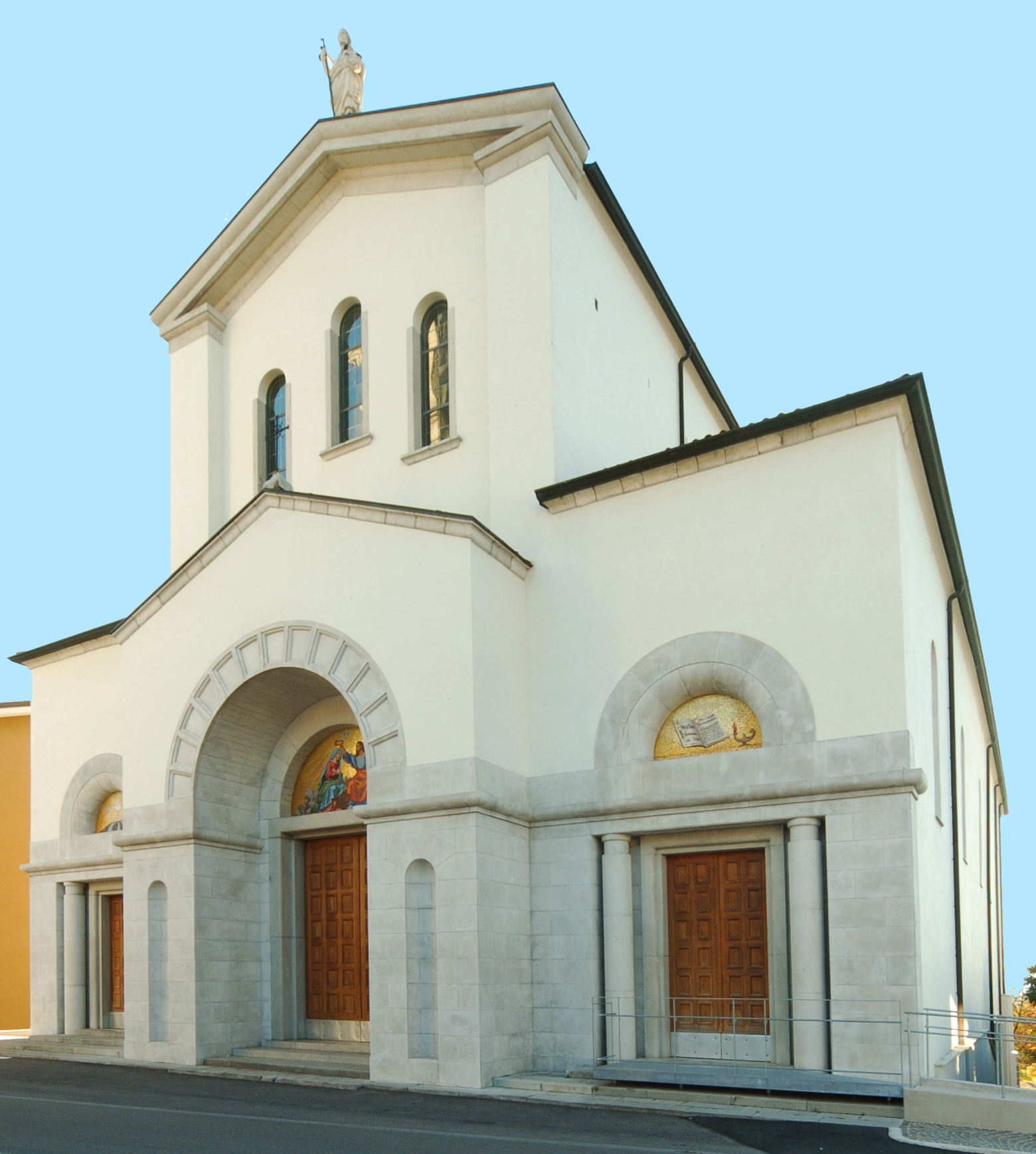 Church of San Giacomo in the community Ragogna, province of Udine, region Friuli Venezia-Giulia, Italy